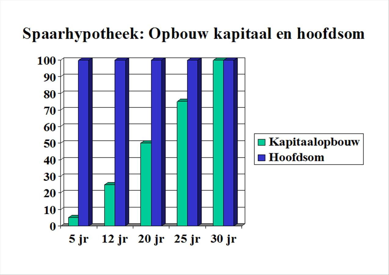 Mortgage Netherlands